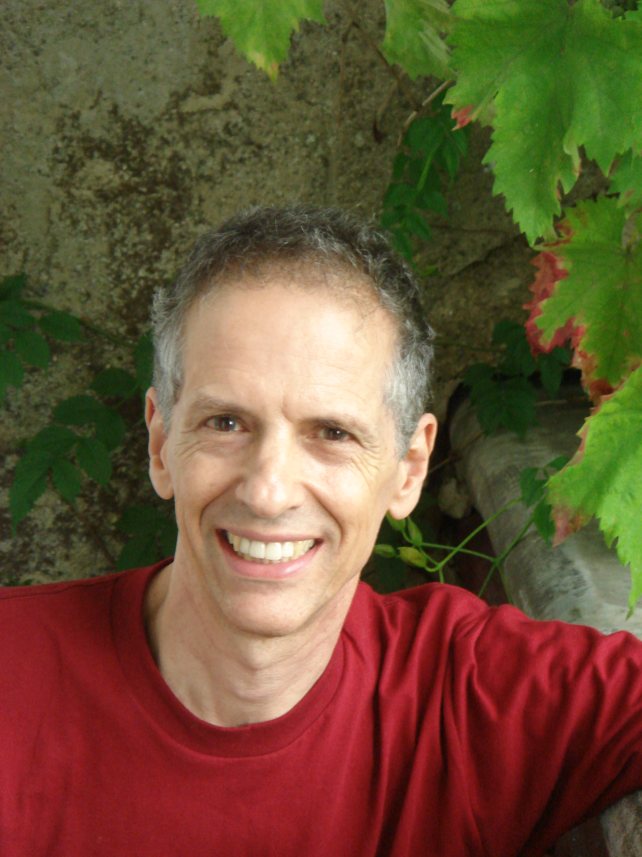 Photo by Margo Weinstein